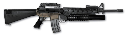 M16A2 Semiautomatic Rifle with M203 Grenade Launcher